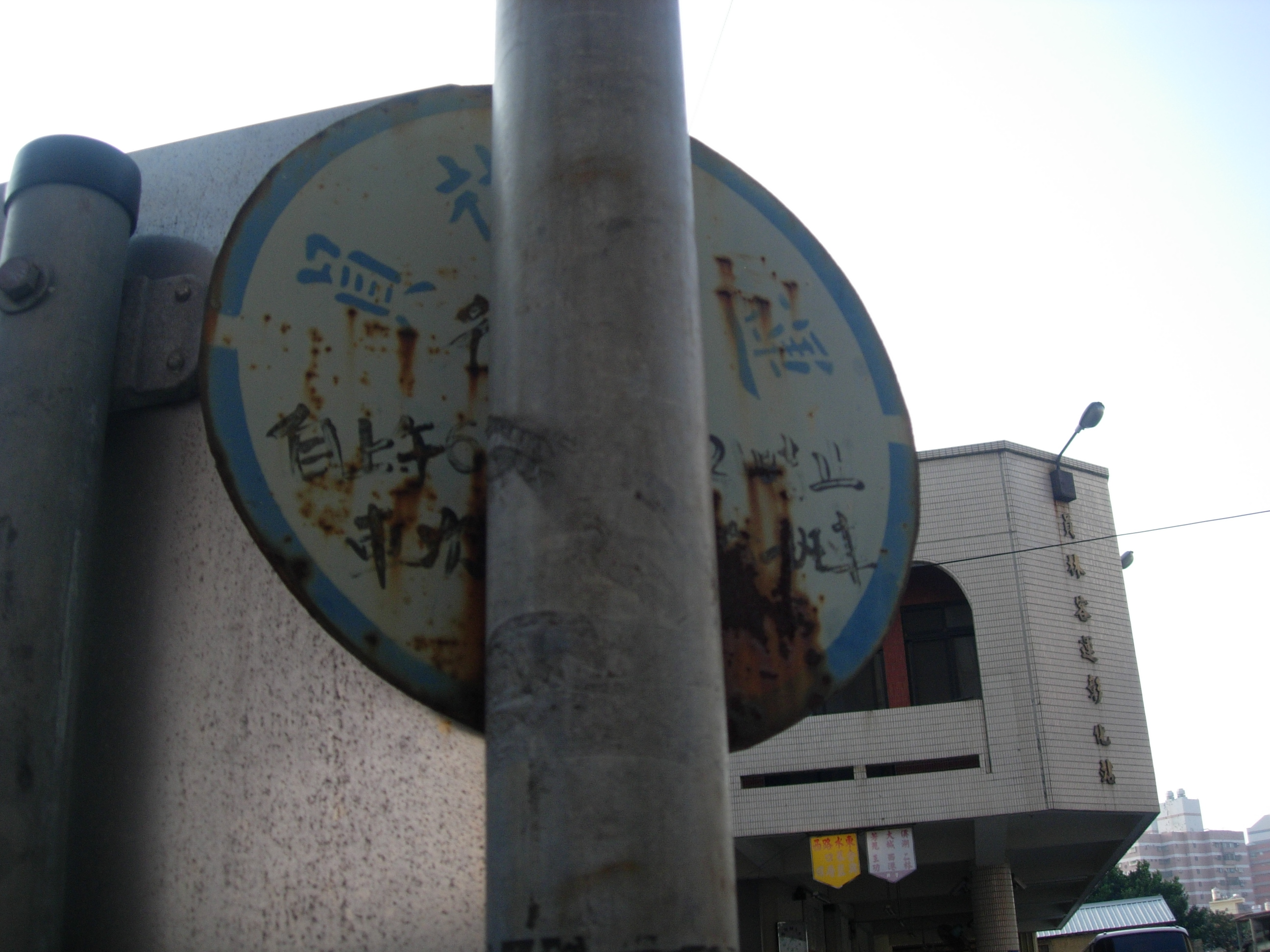 Yuanlin Bus Changhua Old Stop